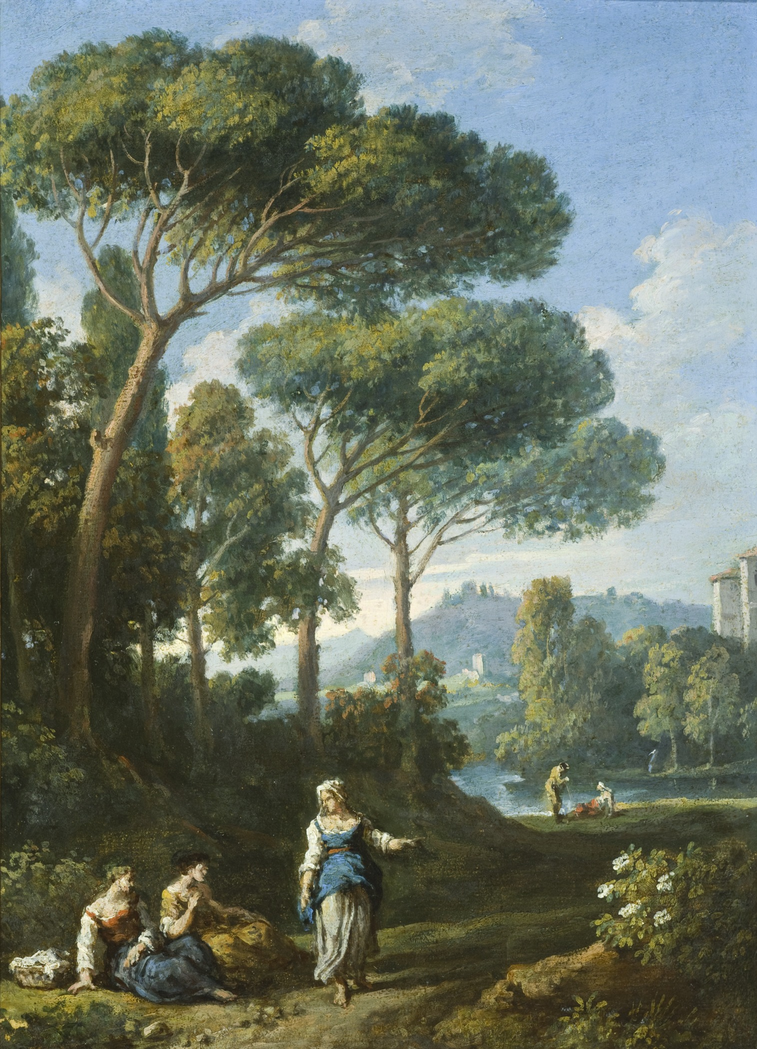 circa 1725 Paintings Oil on paper, laid on canvas Canvas: 13 1/2 x 9 3/4 in. (34.29 x 24.77 cm); Framed: 17 3/4 x 14 x 1 3/4 in. (45.09 x 35.56 x 4.45 cm) Museum purchase in honor of Leonard E. Walcott, Jr. (M.2008.67.1) European Painting Currently on public view: Ahmanson Building, floor 3